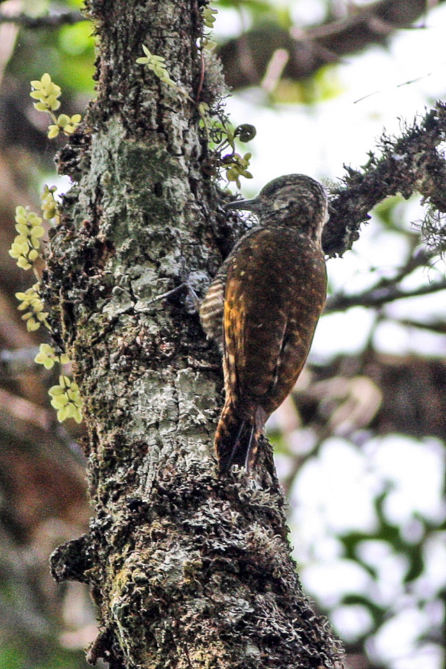 Dot-fronted Woodpecker Veniliornis frontalis, between Salta and Uquia, Jujuy, northern Argentina.